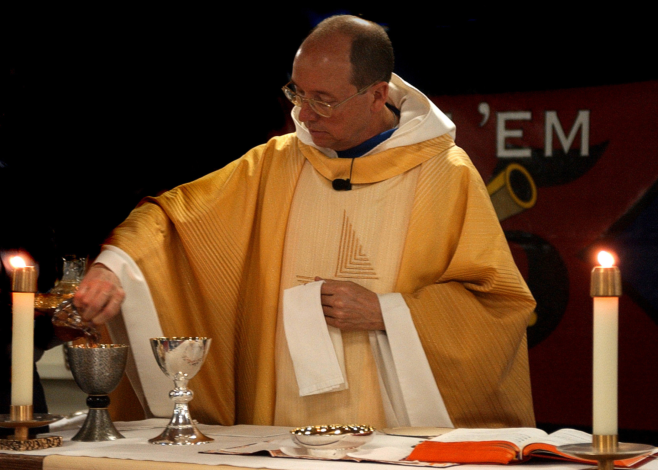 Suez Canal (Mar. 26, 2005) - Chaplain, Lt. John Burnette prepares communion for Easter Mass in the forecastle aboard the Nimitz-class aircraft carrier USS Harry S. Truman (CVN 75). The Harry S. Truman Carrier Strike Group was recently relieved after completing nearly four months in the Persian Gulf in support of the Global War on Terrorism. U.S. Navy photo by Photographer's Mate 3rd Class Darin R Conway (RELEASED)